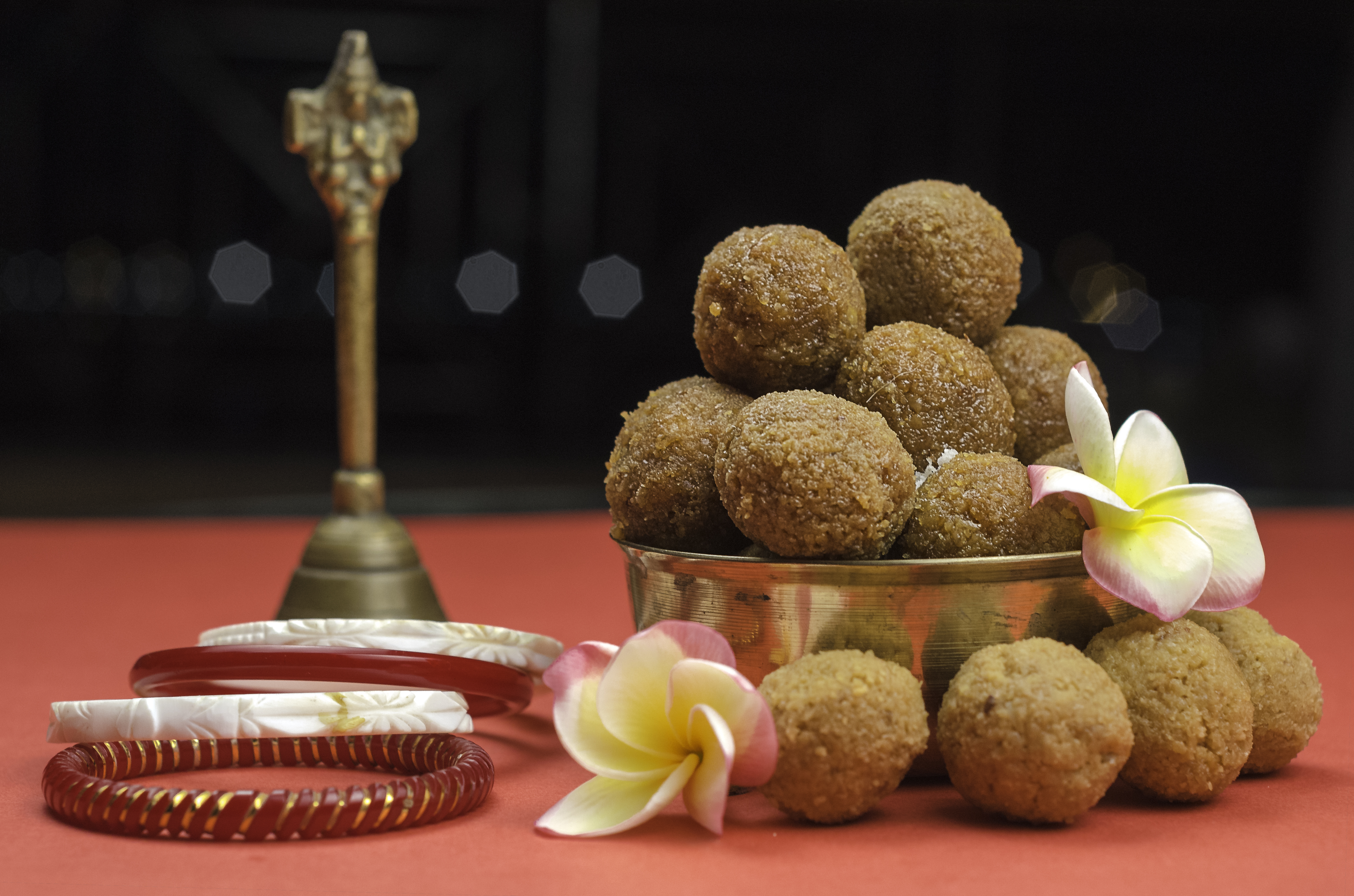 Coconut and Jaggery Balls ...... Bengali Narkel Naru .. A sweet delicacy made during Laxmi Puja or any other auspicious Religious event .... Specially common in Bengali's but widely spread and used in other Religions also...